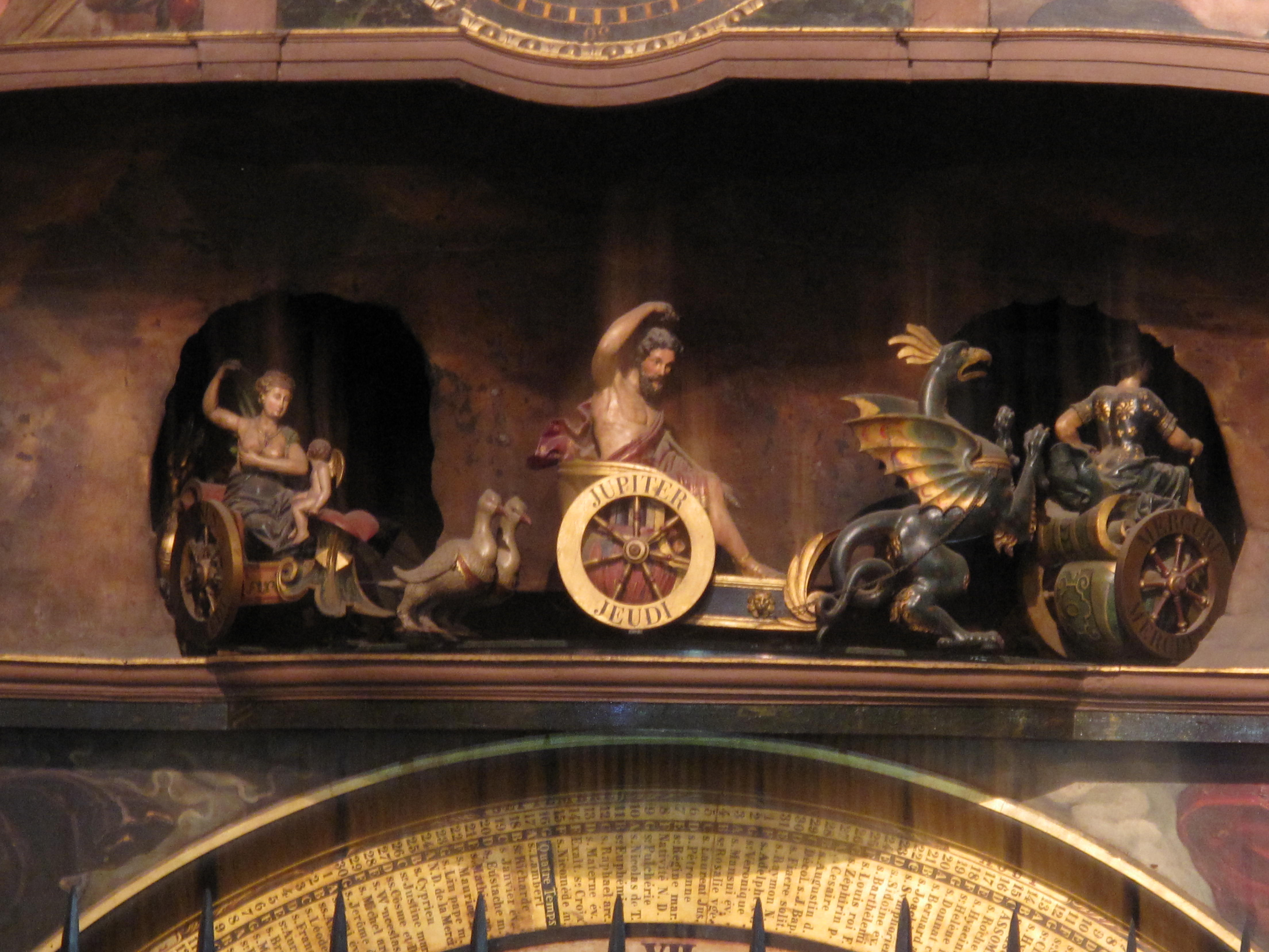 Chariot of thursday (driven by Jupiter) of the astronomical clock of the cathedral of Strasbourg (Bas-Rhin, France).